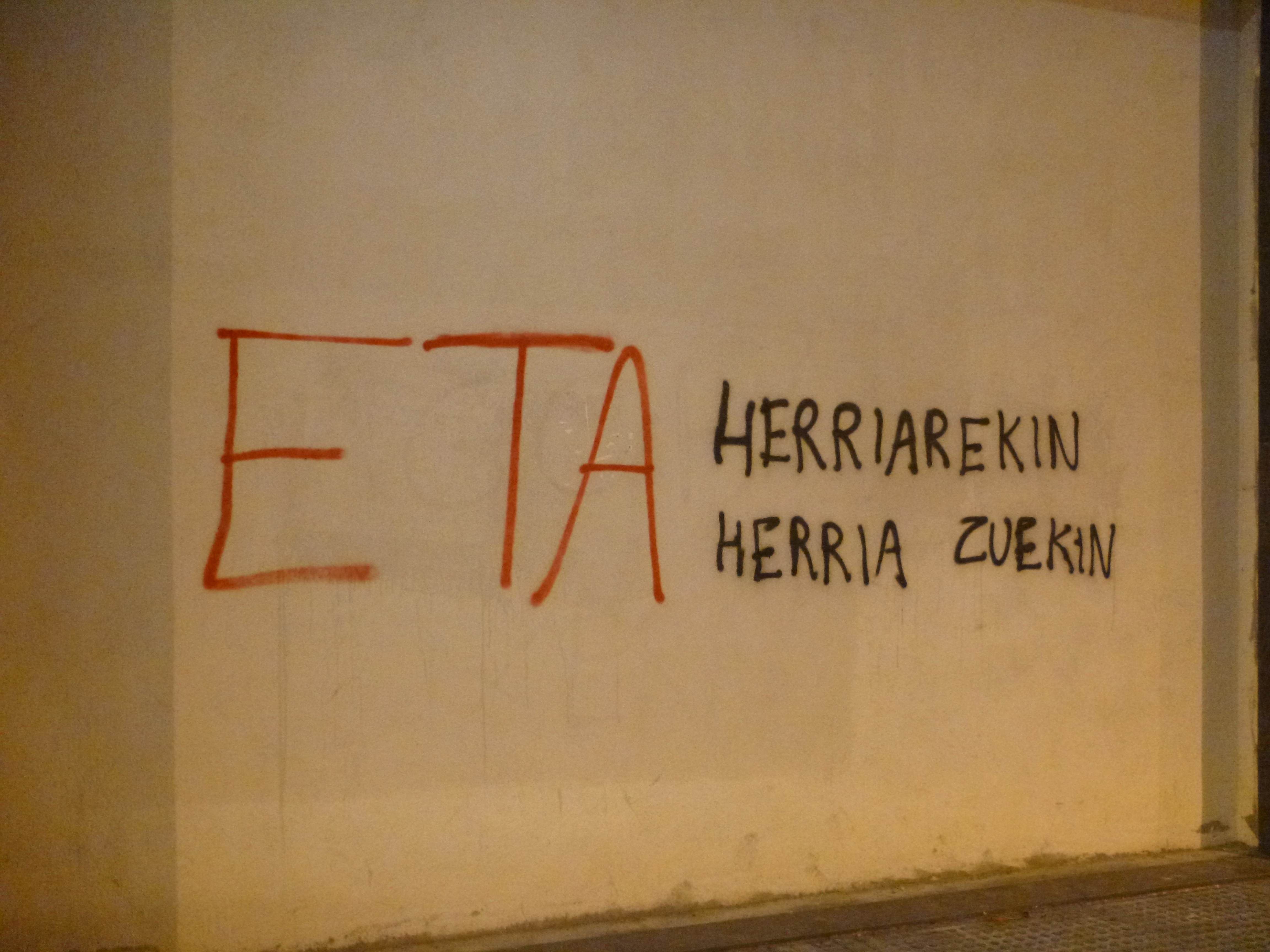 2017_04_06 graffiti